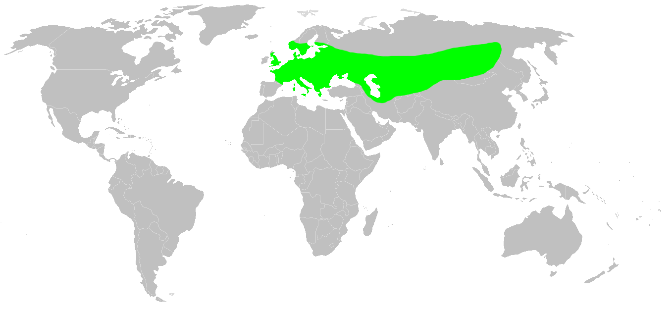 Known world distribution of Talavera aequipes, according to: Logunov D.V., Kronestedt T. 2003. A review of the genus Talavera Peckham and Peckham, 1909 (Araneae, Salticidae). Journal of Natural History, 2003, 37: 1136-1142